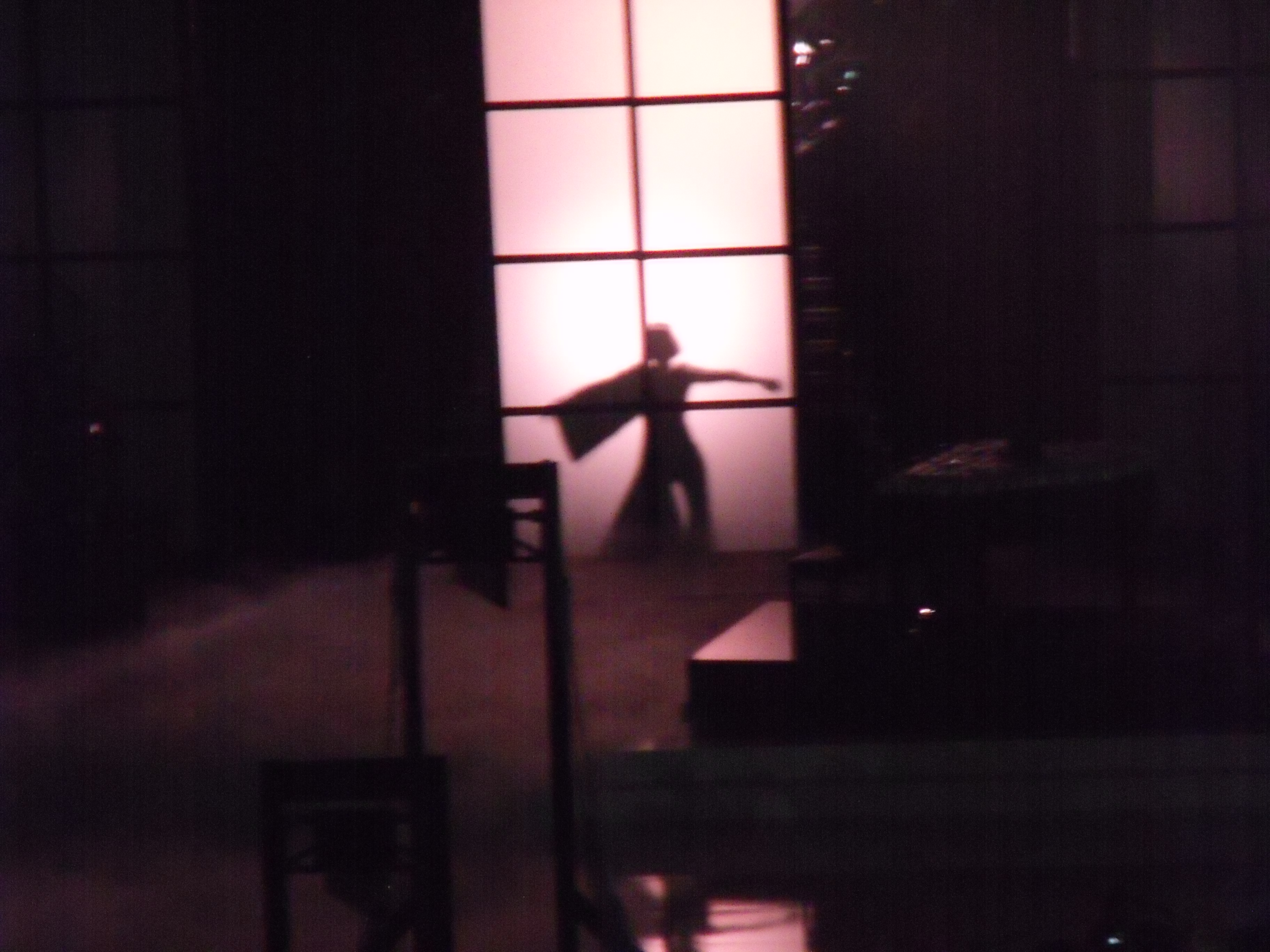 Lady Gaga performing Scheiße